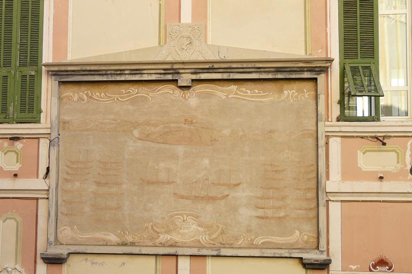 Fresco depicting the Battle of Meloria, Diano Castello, Liguria, Italy